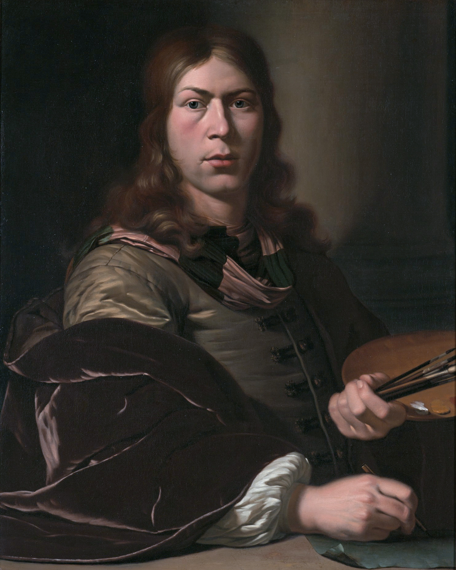 Jan van Mieris (1660-1690) oil on canvas 80 x 64 cm circa 1685